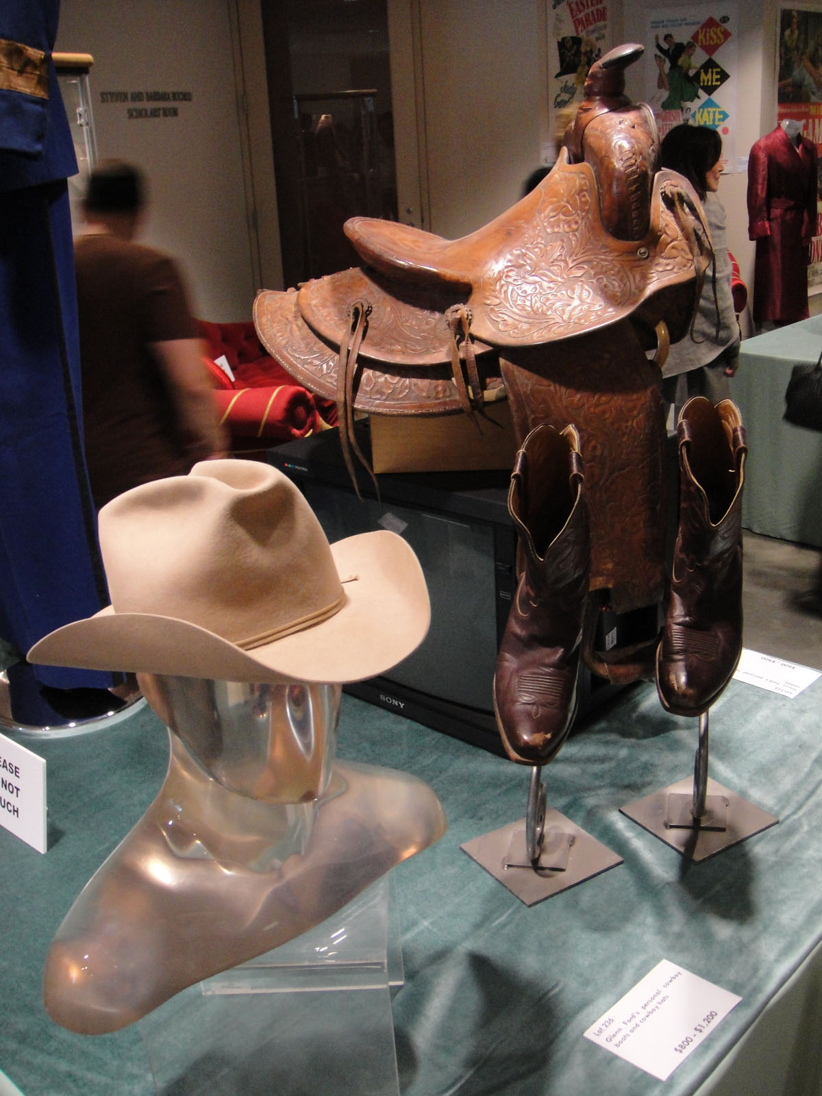 Glenn Ford's personal cowboy boots, hat, and saddle at the Debbie Reynolds Auction Breaks Up Historic Hollywood Collection (The Paley Center for Media in Beverly Hills, Los Angeles, CA, USA).